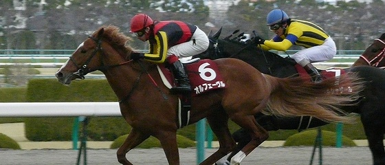 Orfevre at the 2011 Spring Stakes horserace